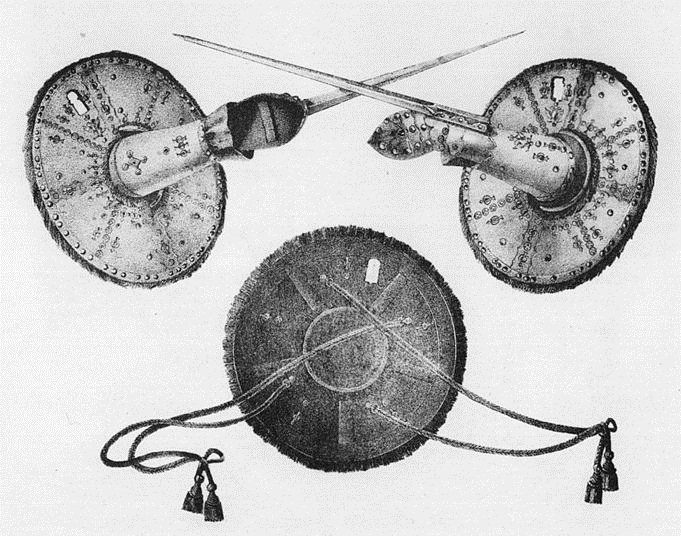 Targe.